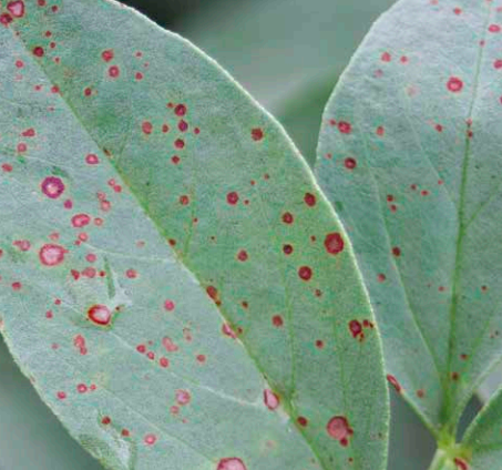 Symtoms Botrytis fabae